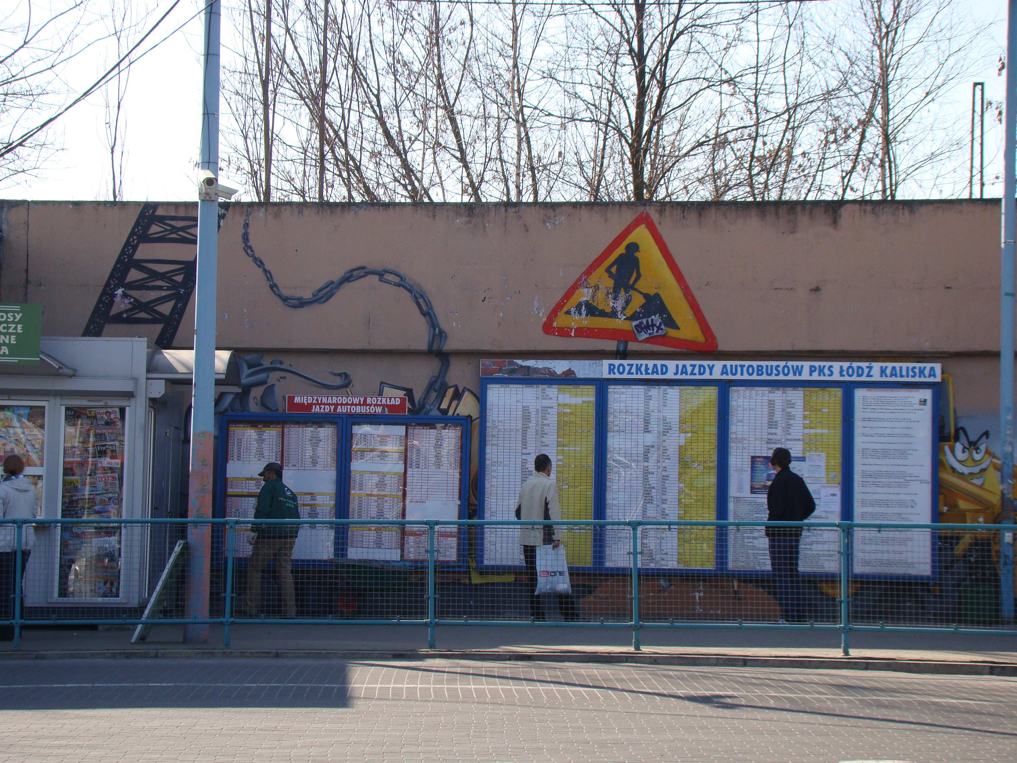 Bus station in Łódź